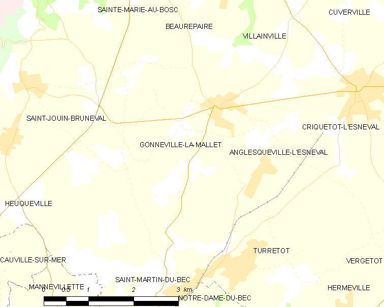 Map of French municipality Gonneville-la-Mallet